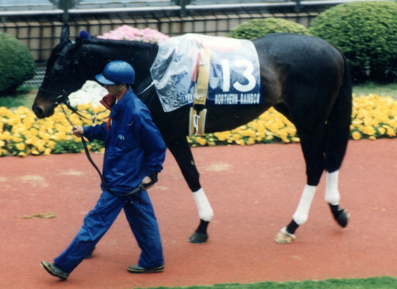 Northern Rainbow (horse)